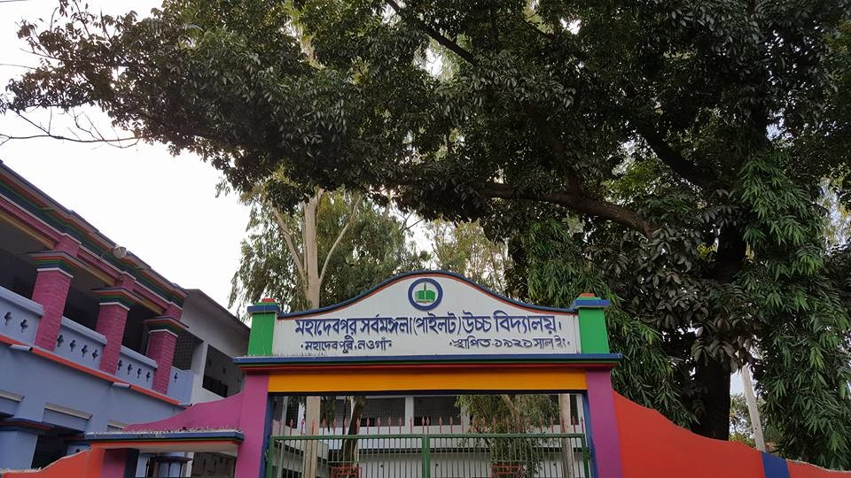 Mohadevpur Sarba Mongala (Pilot) High School Front Gate